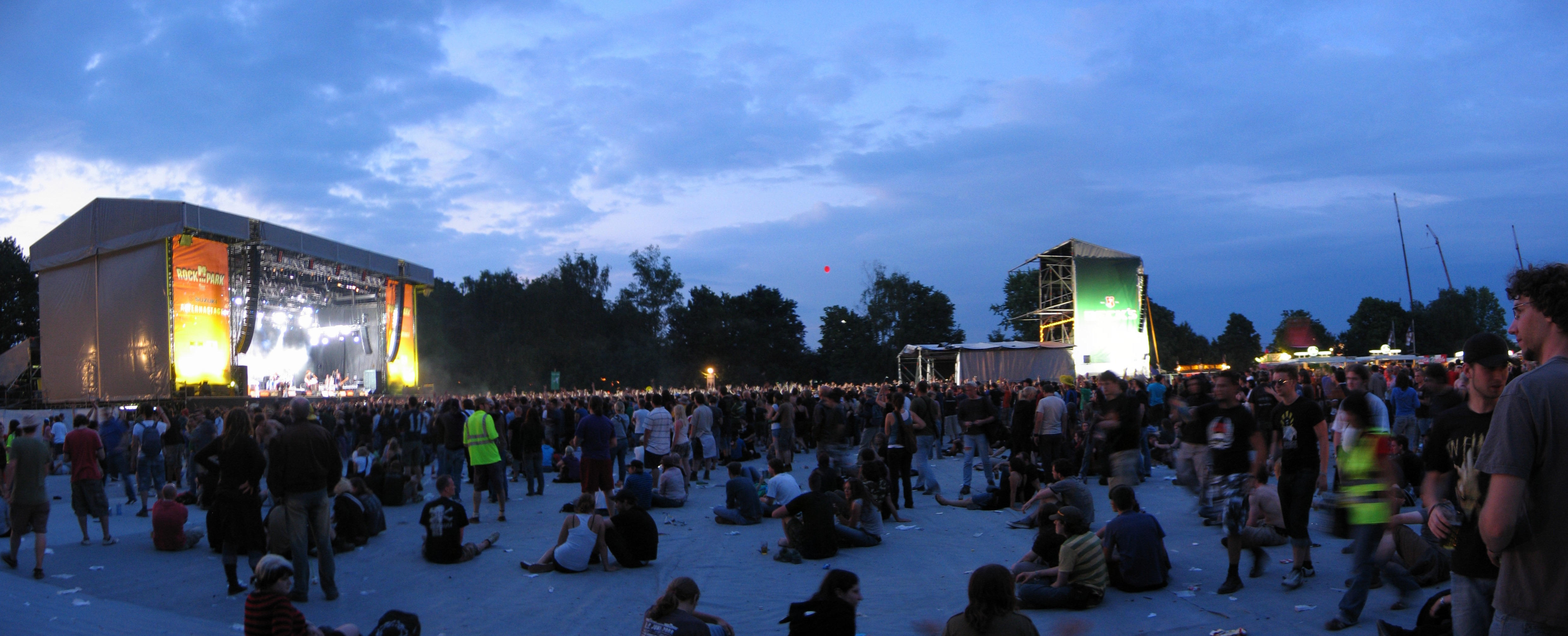 A panorama of Alternative Stage taken during Rock Im Park music festival in Nuremberg, Germany. Individual pictures taken by Canon Powershot A80.